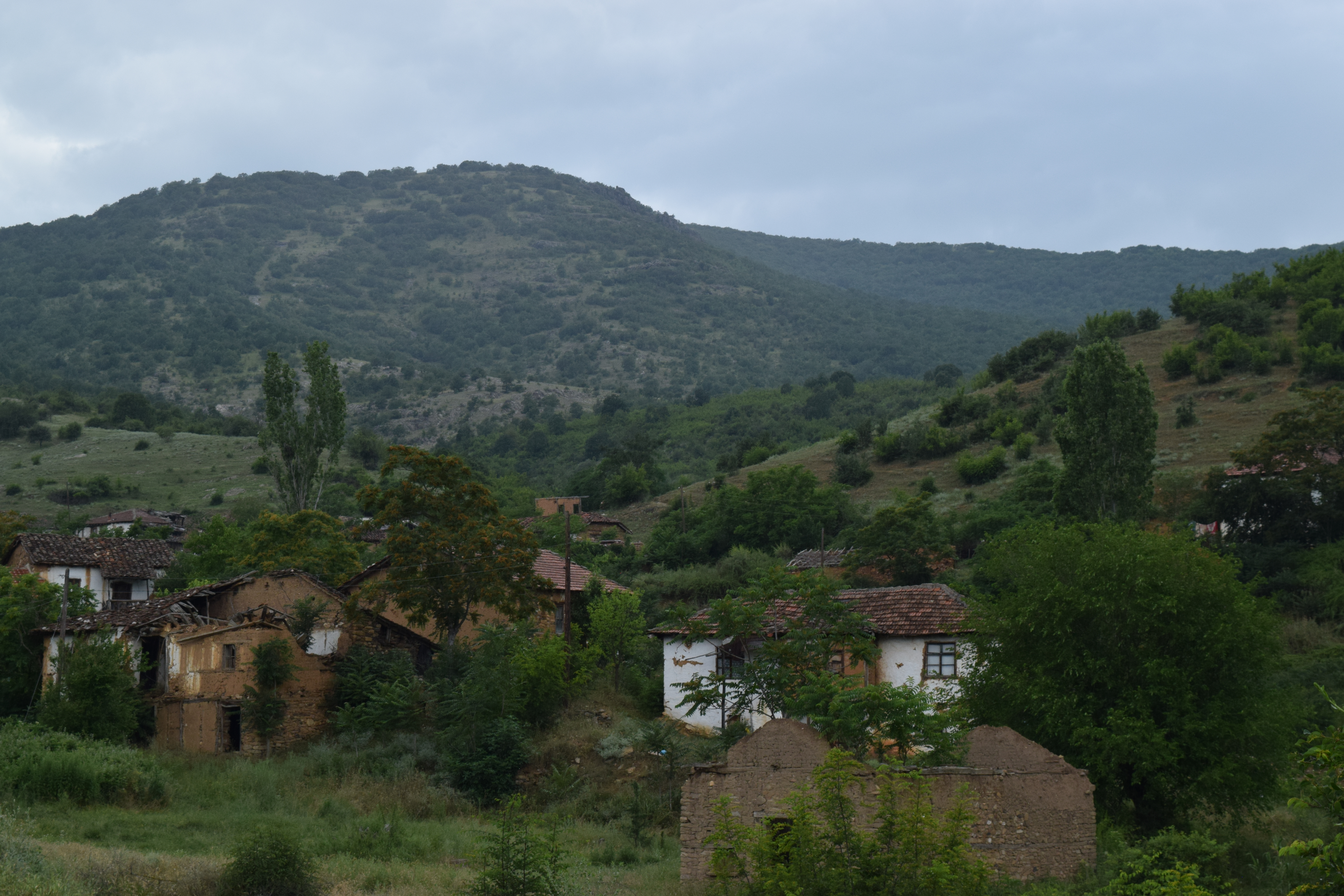 View of the village Stari Grad